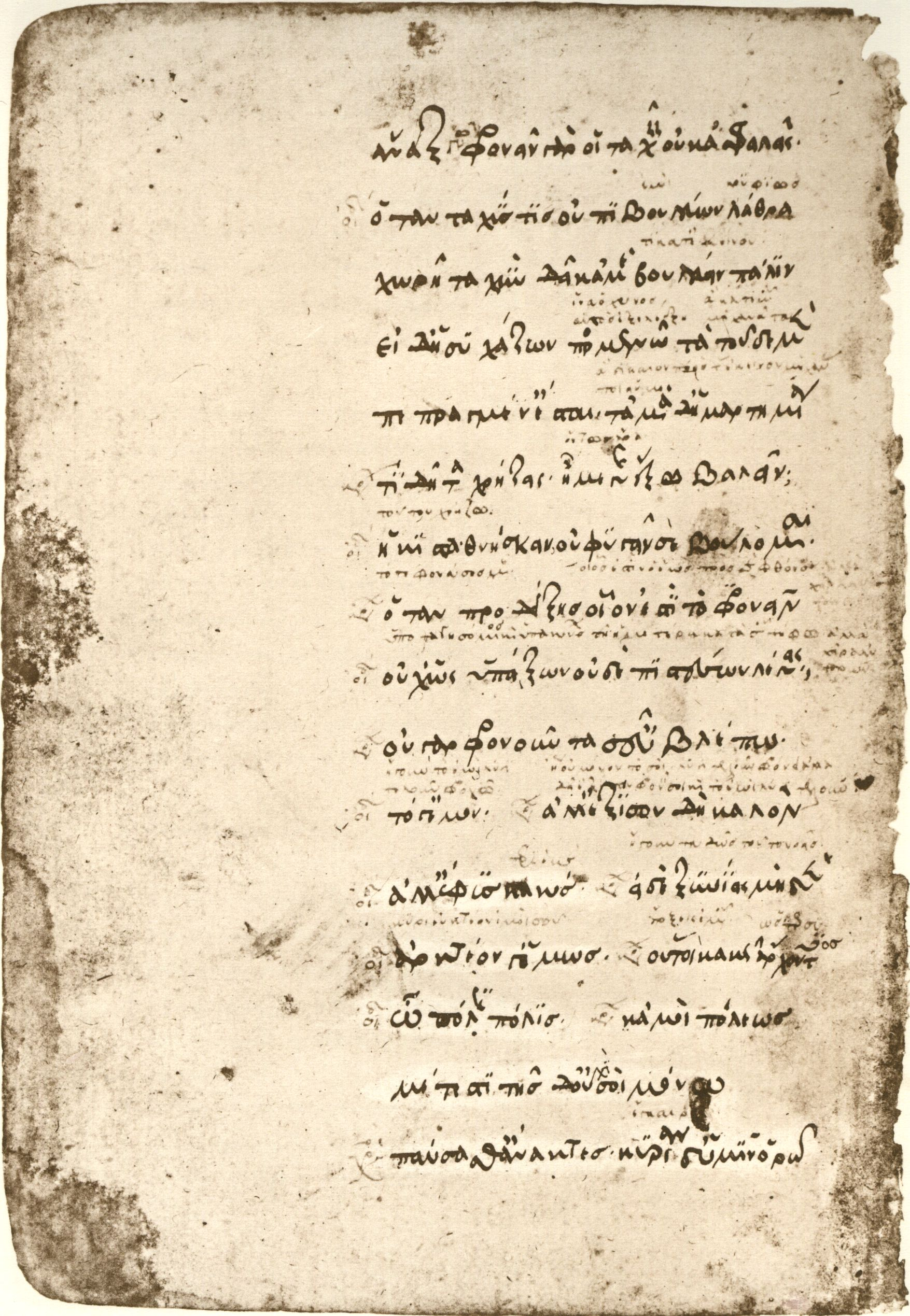 Sophocles, Oedipus the King, in ms. Biblioteca Apostolica Vaticana, Vaticanus graecus 920, fol. 193v